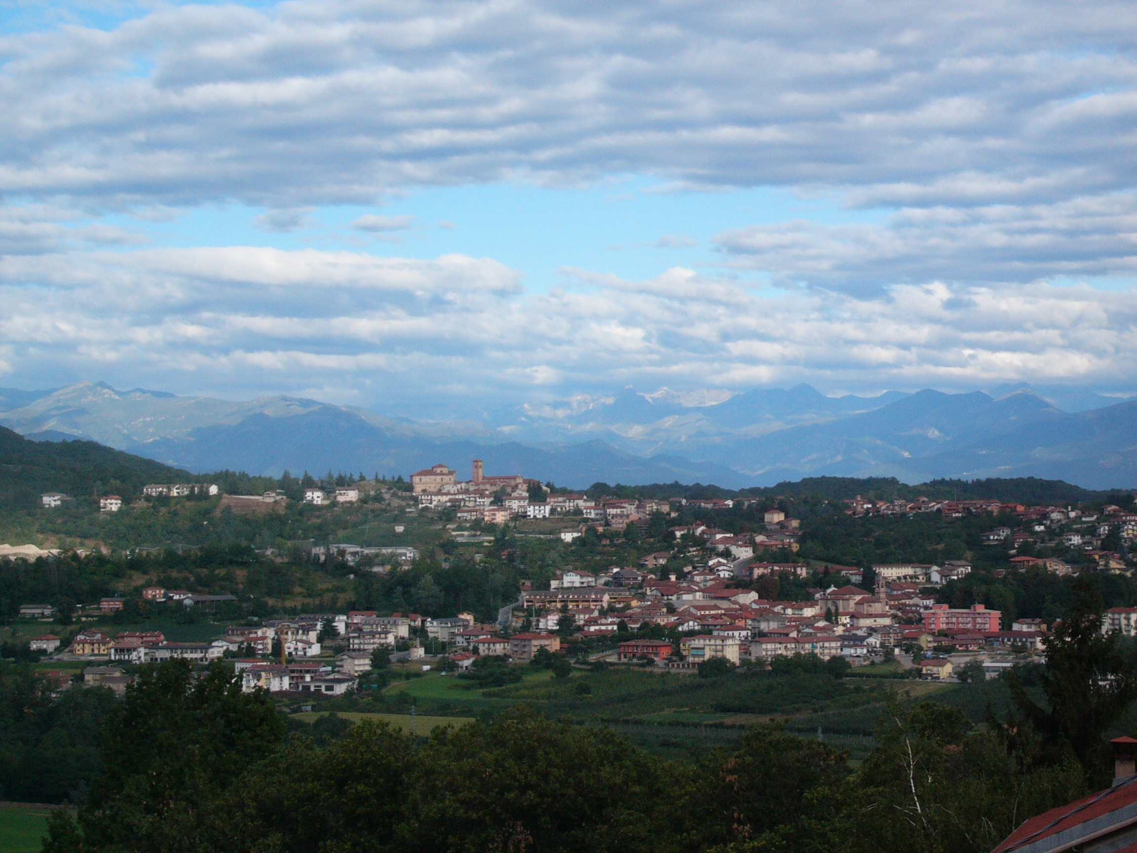 General view of Villanova Mondovì (province of Cuneo, Italy)